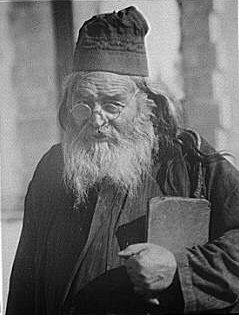 Travel views of Europe Other Title: Librarian of the Athos monastery of Simonopetra Arnold Genthe Collection Lantern slides.